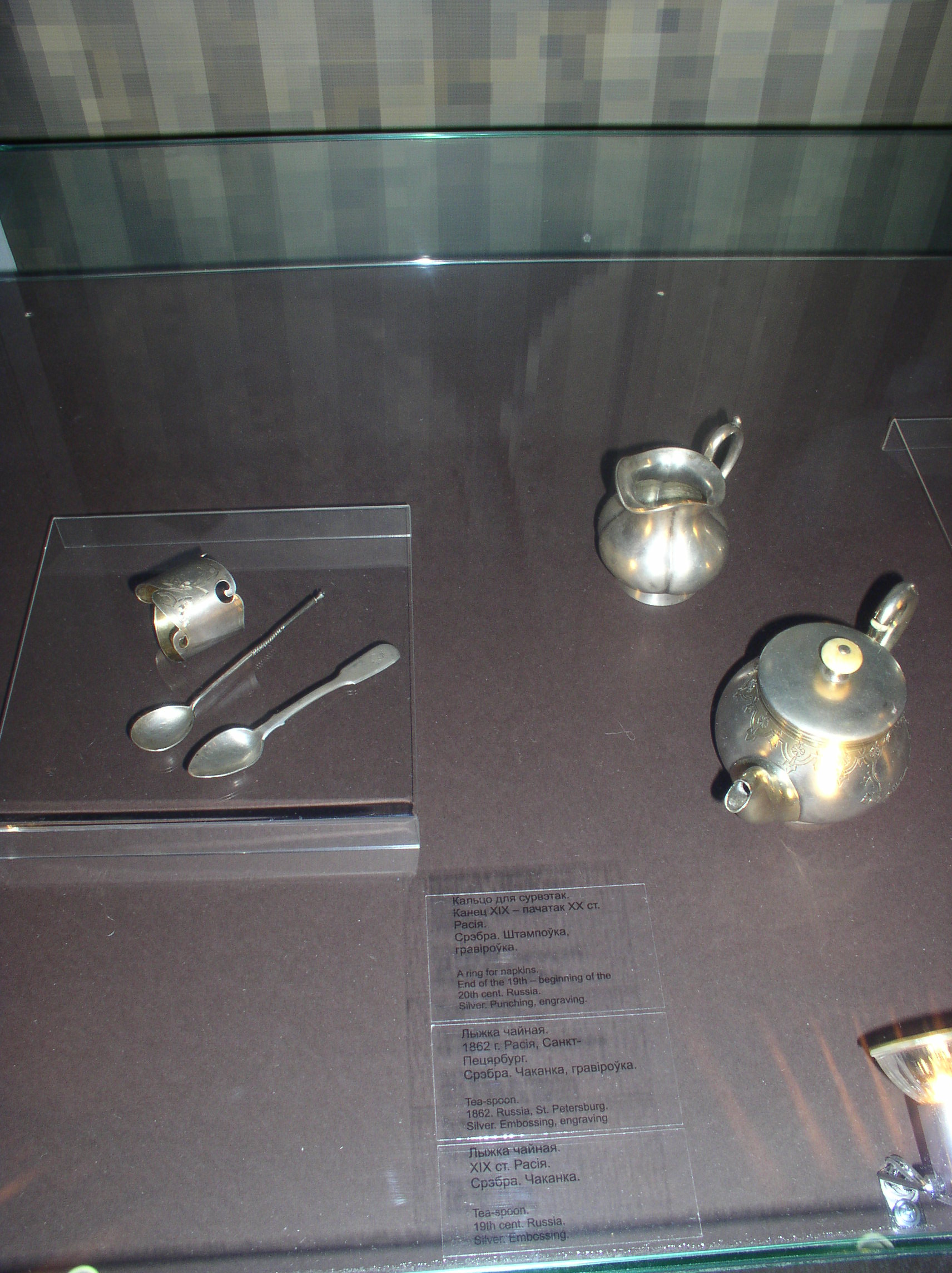 Food equipment. National museum of history and culture of Belarus. Karl Marx street, 12. Minsk, Belarus.